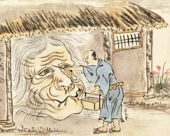 Ōkubi (大首, the face of a huge woman) from the Tōtei bukkairoku (稲亭物怪録)